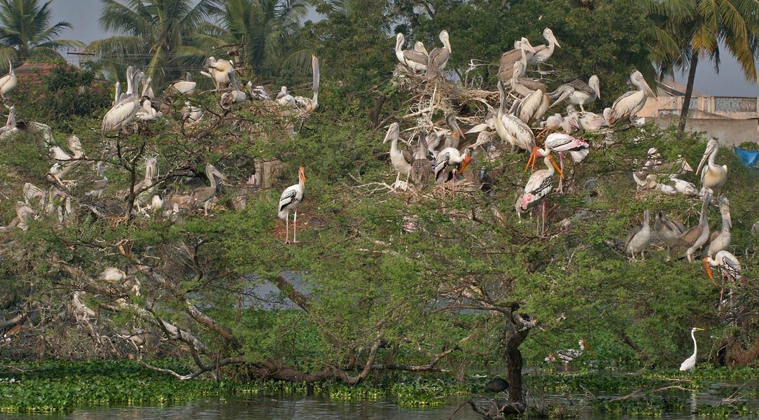 Spot-billed Pelican Pelecanus philippensis & Painted Stork Mycteria leucocephala at Garapadu, Andhra Pradesh, India.